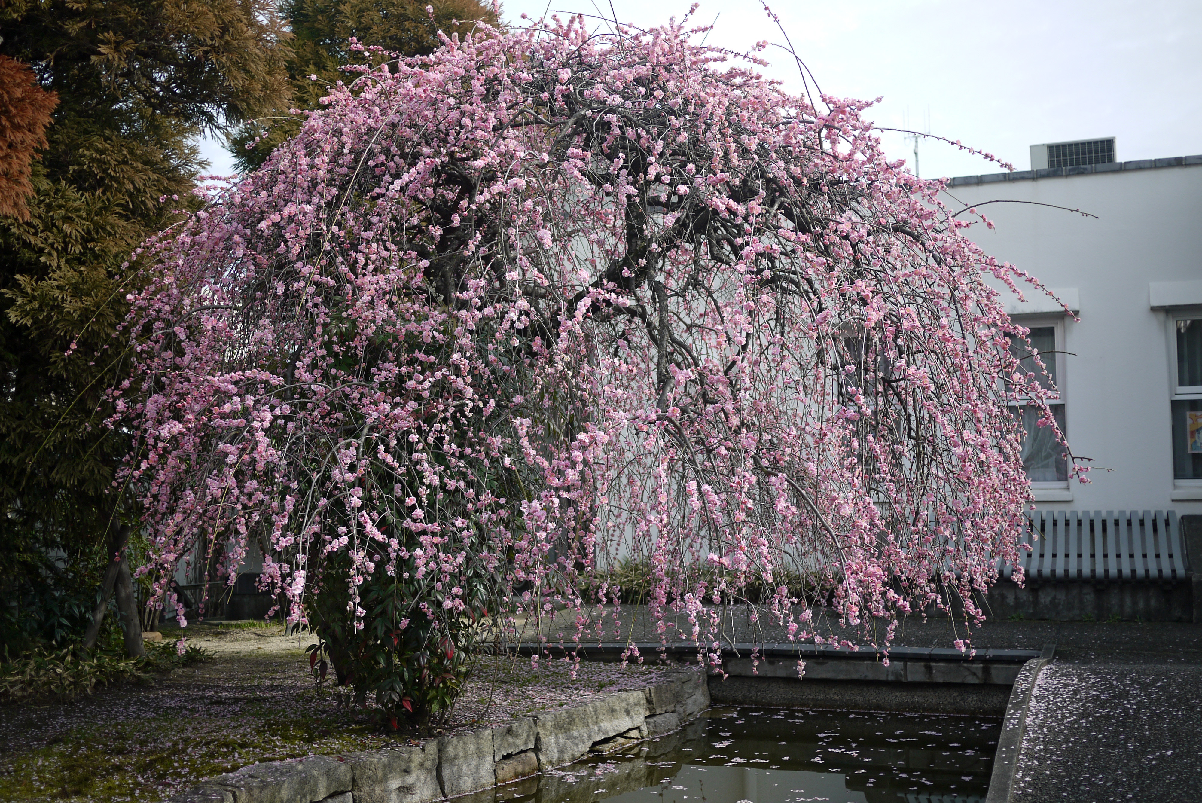 Yumeji Art Museum in Okayama, Okayama prefecture, Japan